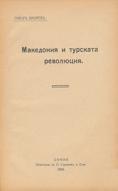 Macedonia and the Turkish Revolution 1908